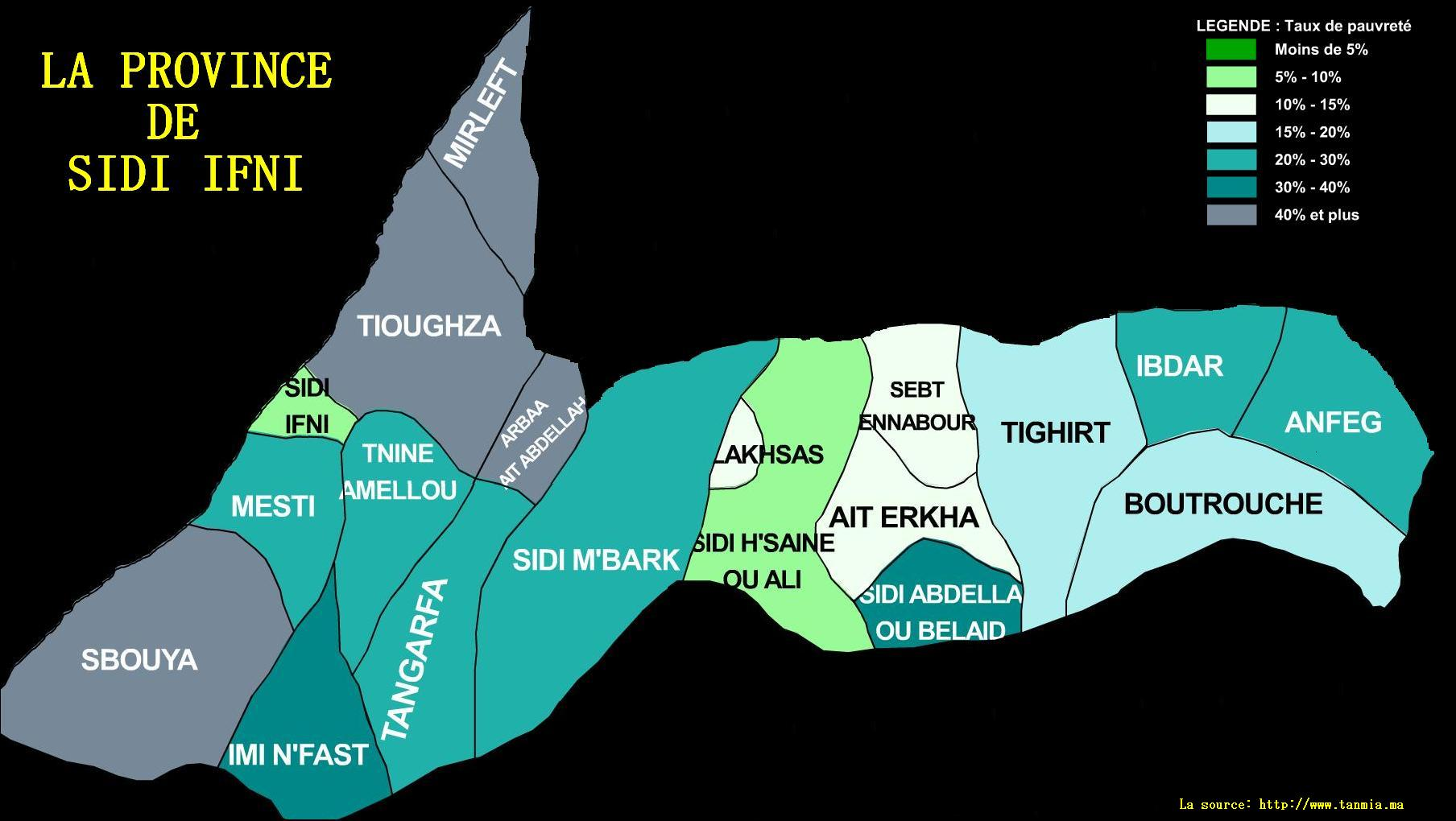 Povrety rate Sidi Ifni